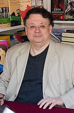 Signing books in Granada Spain